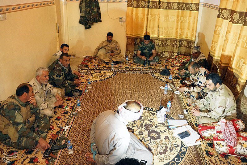 Iraqi Army and Hashed al-Shaabi (Popular Mobilization Forces of Iraq) fighting against the Islamic State in Saladin Governorate.